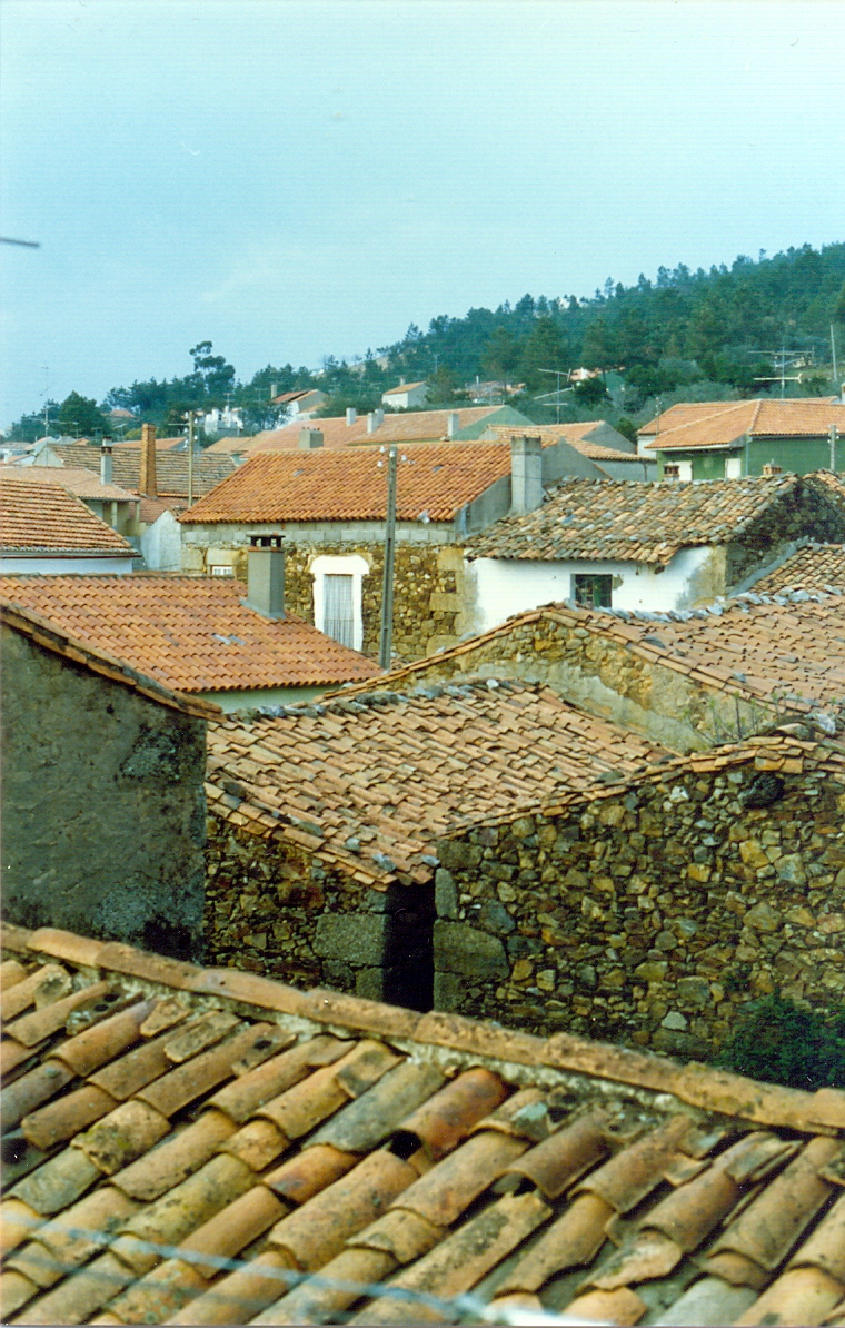 Salvador, Penamacor, Portugal.